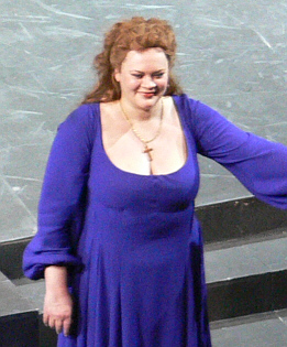 Violeta Urmana, taking curtain calls after a performance of "La Gioconda" in Madrid